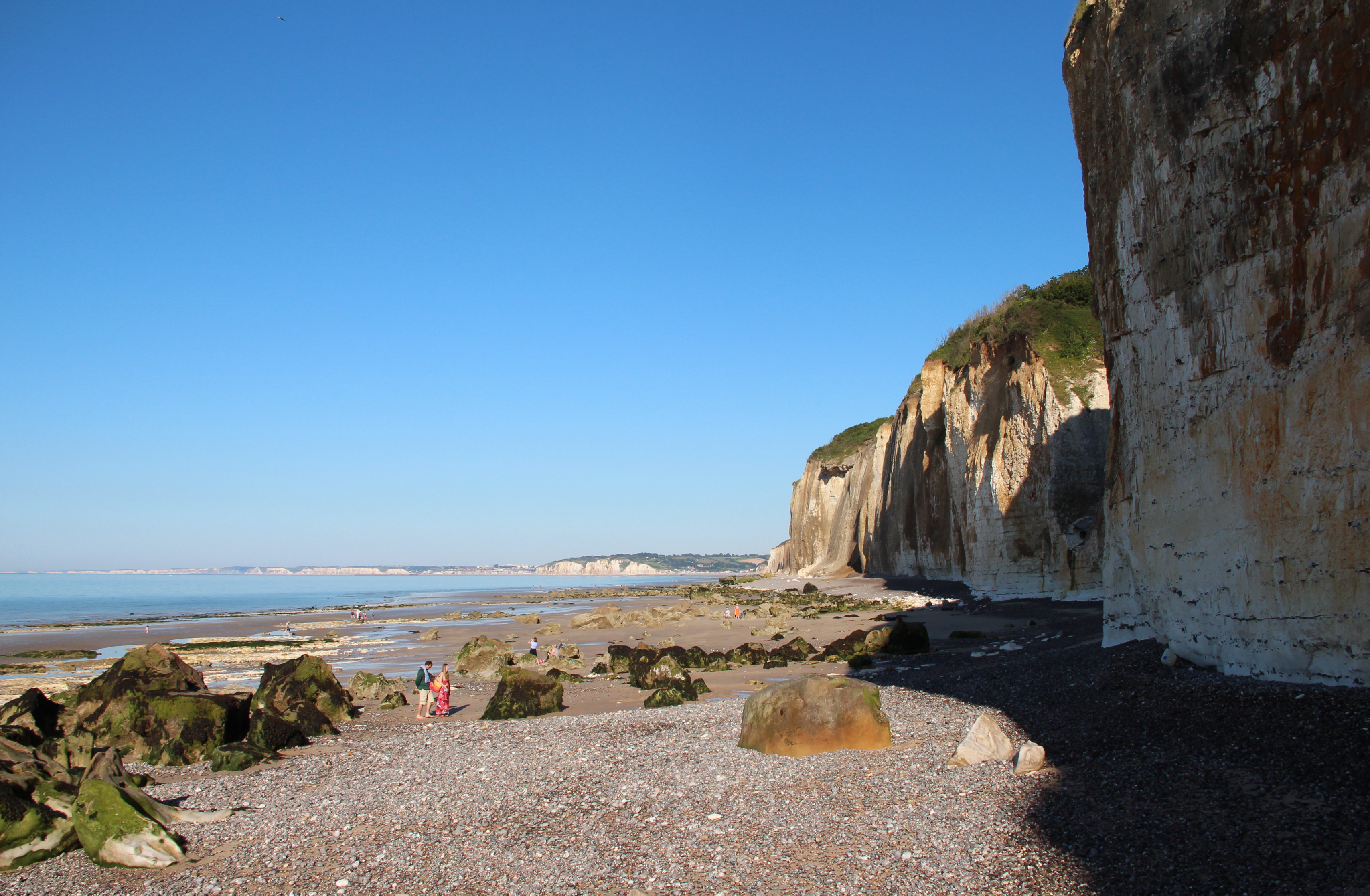 Varengeville-sur-Mer (Seine-Maritime - France), the beach and cliffs of Vasterival.